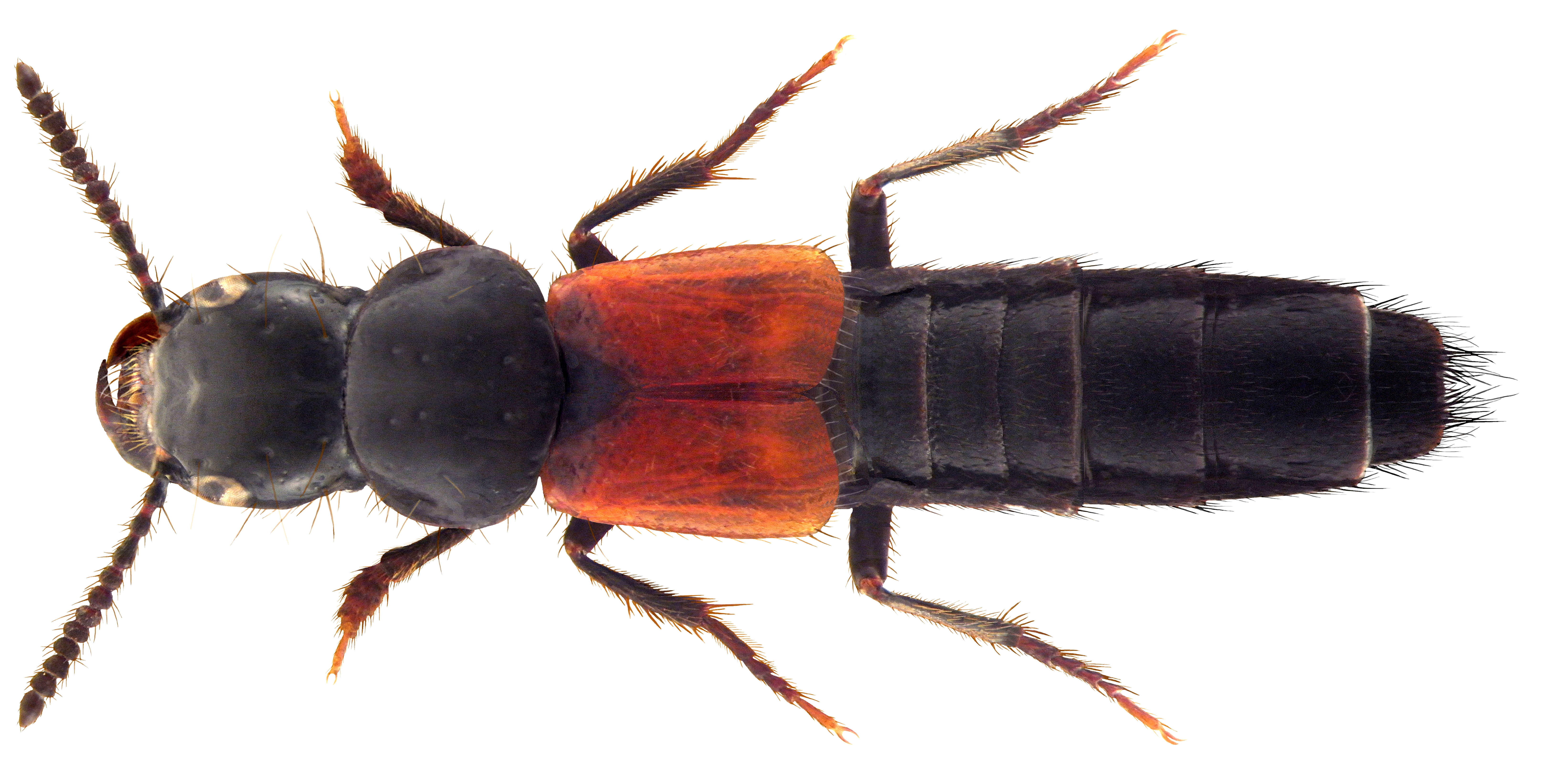 Family: Staphylinidae Size: 8-11 mm Origin: Europe Ecology: living in underground nests of mammals and hymenoptera Location: Germany, Bavaria, Upper Franconia, Selbitz leg det. U.Schmidt, 2006 Photo: U.Schmidt, 2010